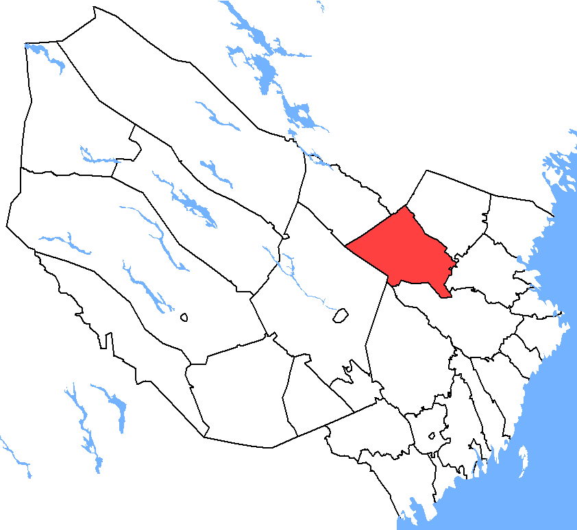 Norsjö municipality of Västerbotten County 1952.